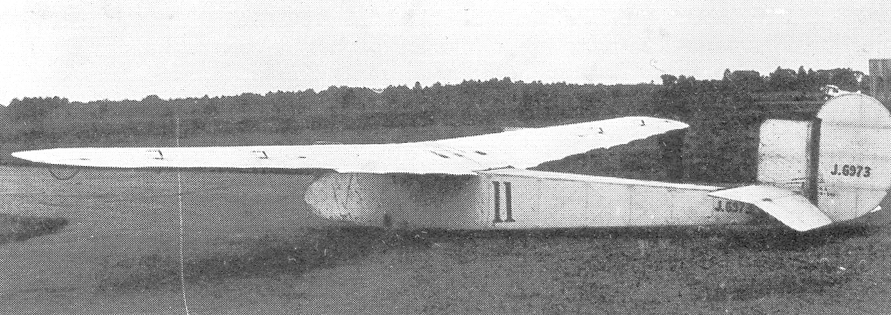 English ElectricWren J6973, September 1923. Not one of the Lympne competitors